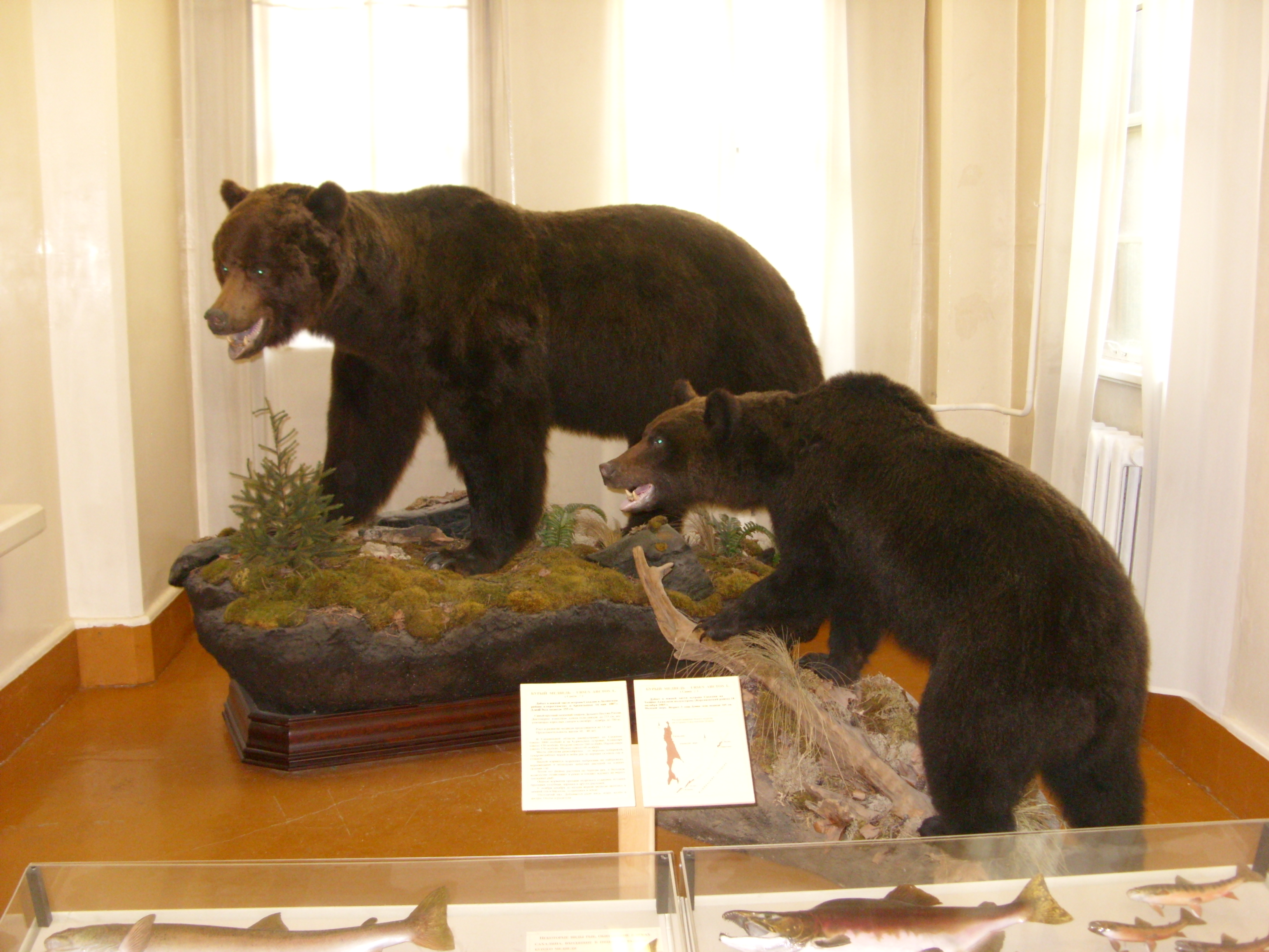 Bears in Sakhalin museum